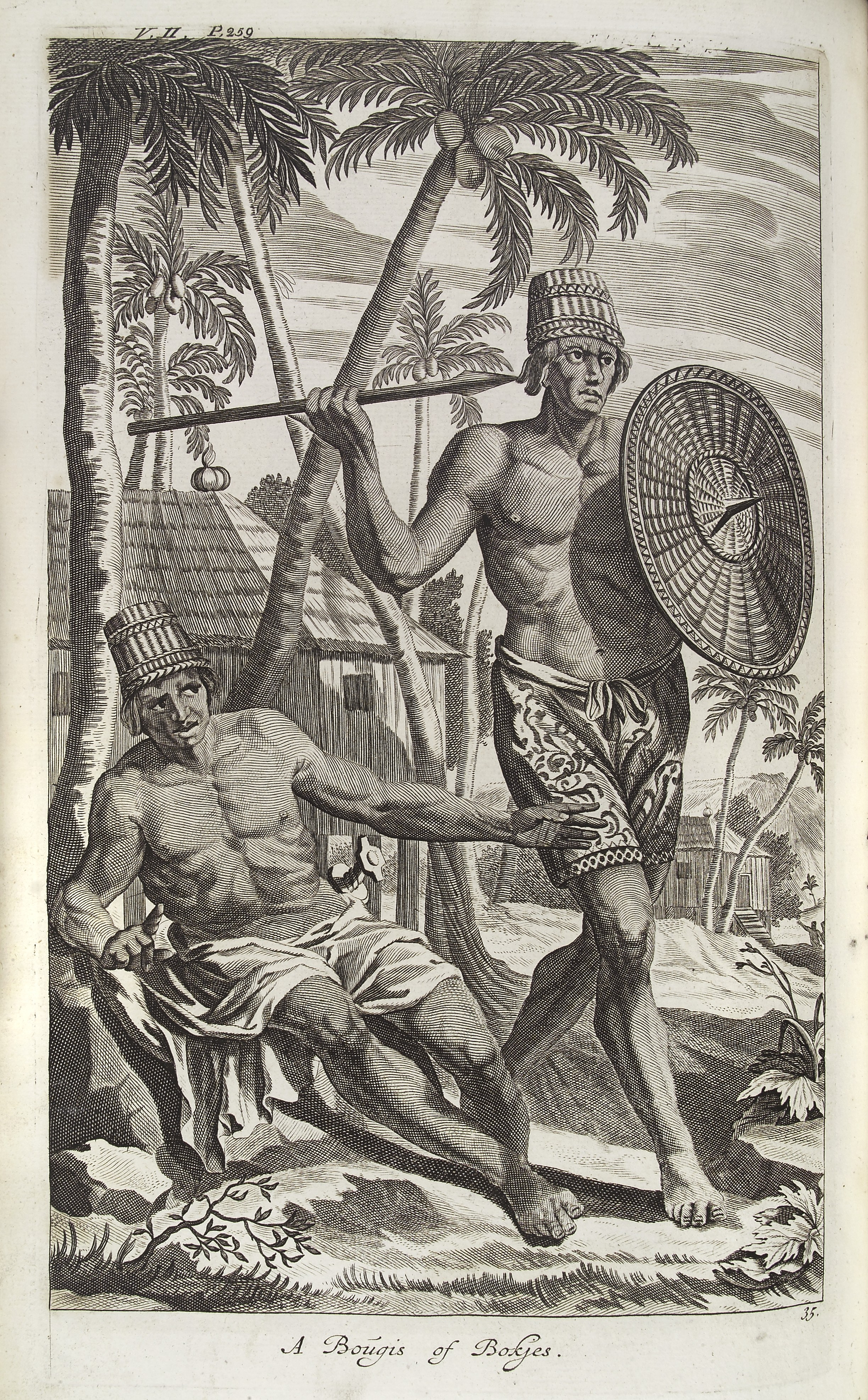 A Bougis, or Bougisses, of Bokyes, a divers island off the cost of Makassar. Rare Books Keywords: Sulawesi; Dutch East India Company; Indonesia; Weapons; Soldier; Population Groups; Military Personnel; East - Indies; Clothing; Native